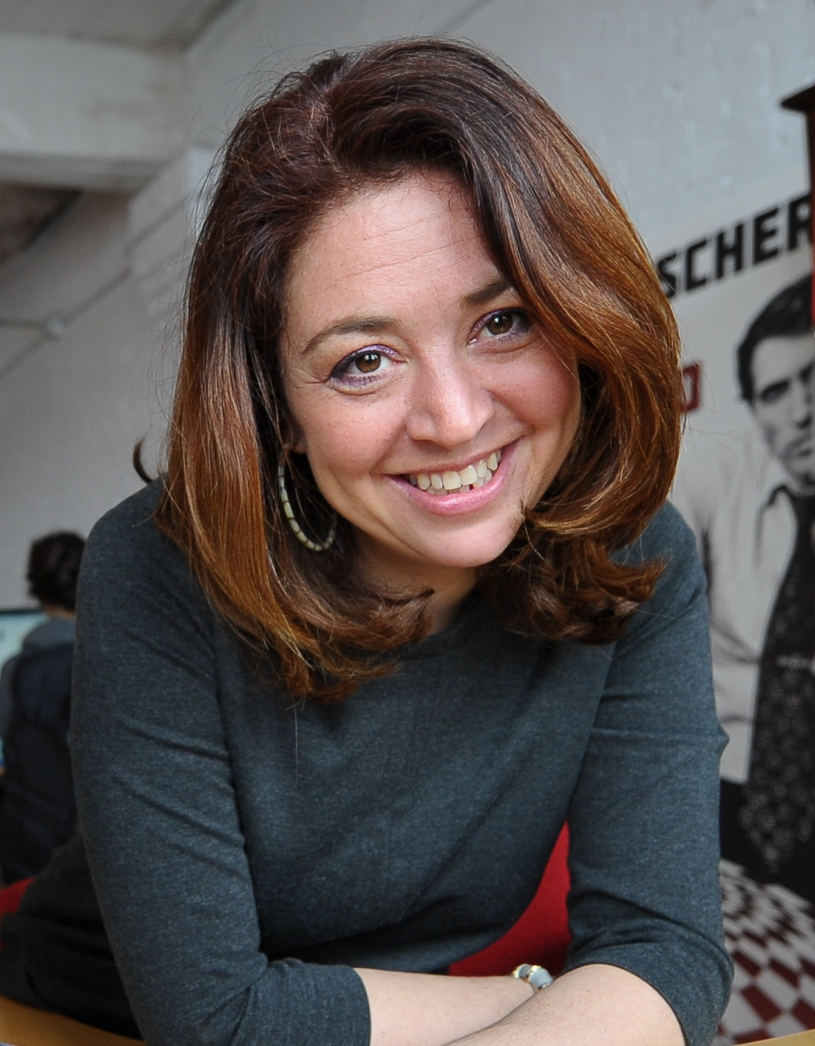 Liz Garbus